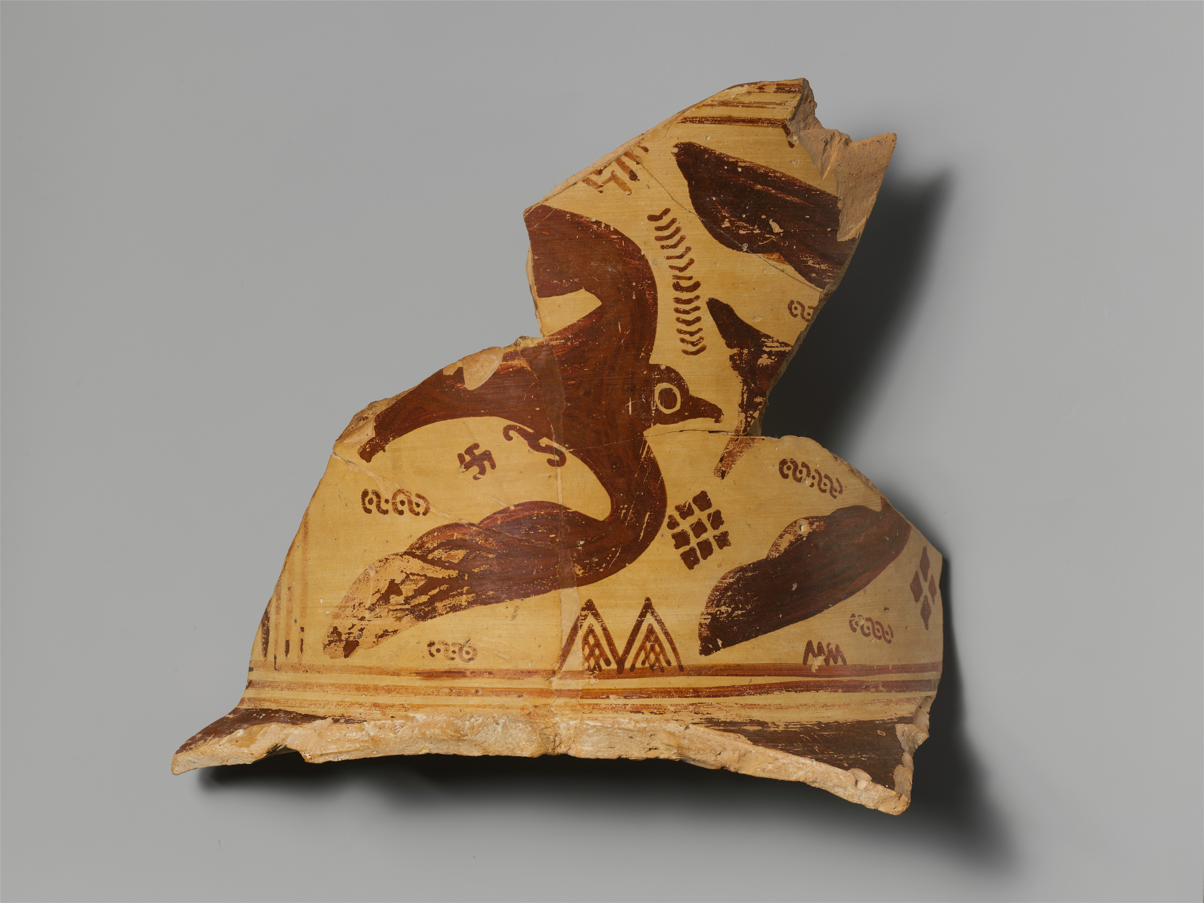 Greek, Protoattic; Neck-amphora, fragmentary; Vases